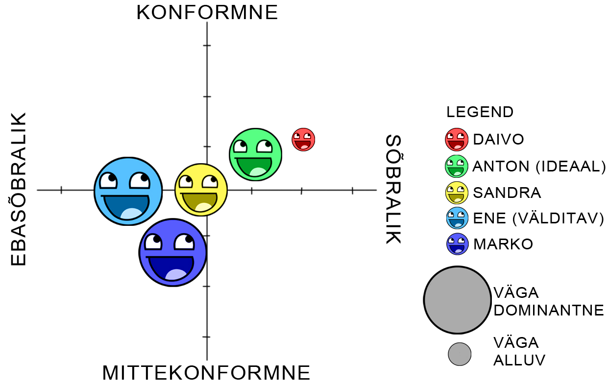 SYMLOG-i joonise lihtsustatud näidis. Artikkel